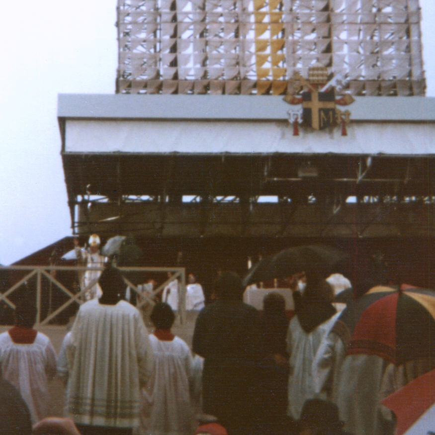 Pope John Paul II during Hl. Mass on Butzweiler Hof, Cologne 1980